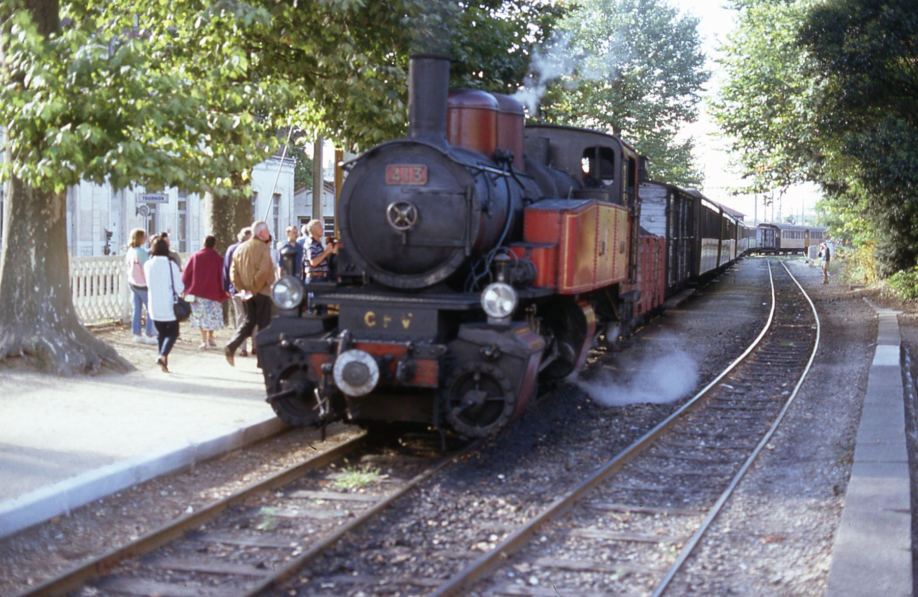 Train of the Chemins de fer du Vivarais at Tournon station.